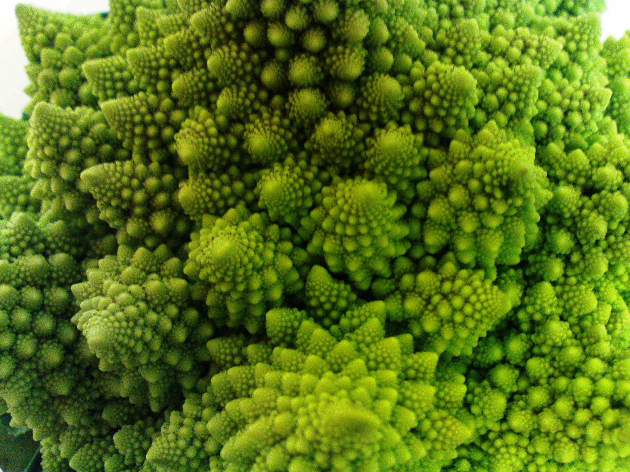 The Romanesco broccoli. Example of fractal in nature.